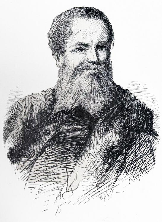 Portrait of François Rabelais by Gustave Doré published in The Works of Rabelais, translated by Sir Thomas Urquhart of Cromarty and Peter Antony Motteux. Published in 1894.